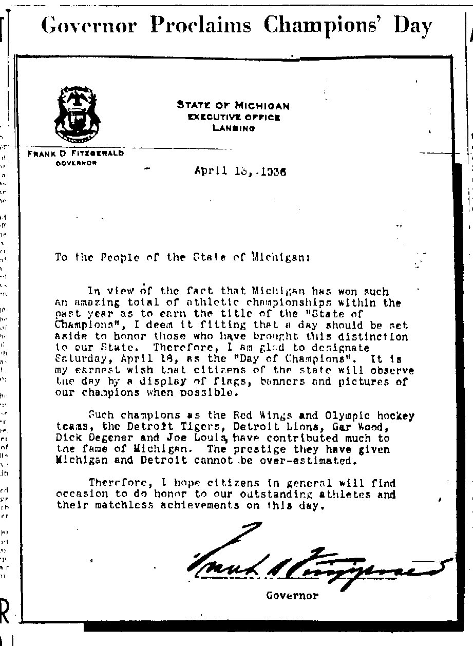 Letter from the Governor of Michigan declaring April 18th as Champions Day in Michigan. Detroit Michigan Champions Day 1935 1936 Tigers Lions Red Wings